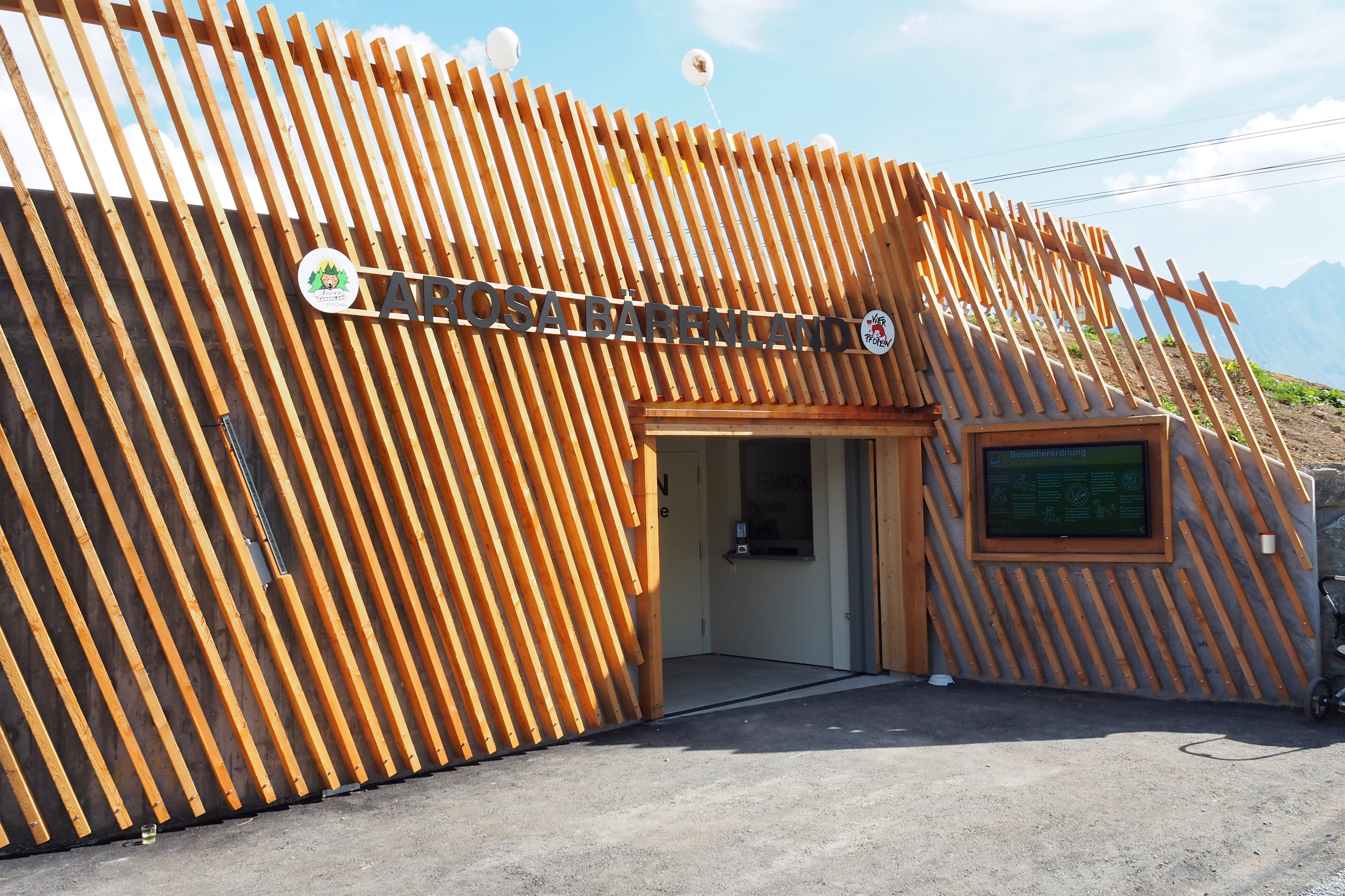 Arosa Bärenland (bear sanctuary): Entrance to the visitor center